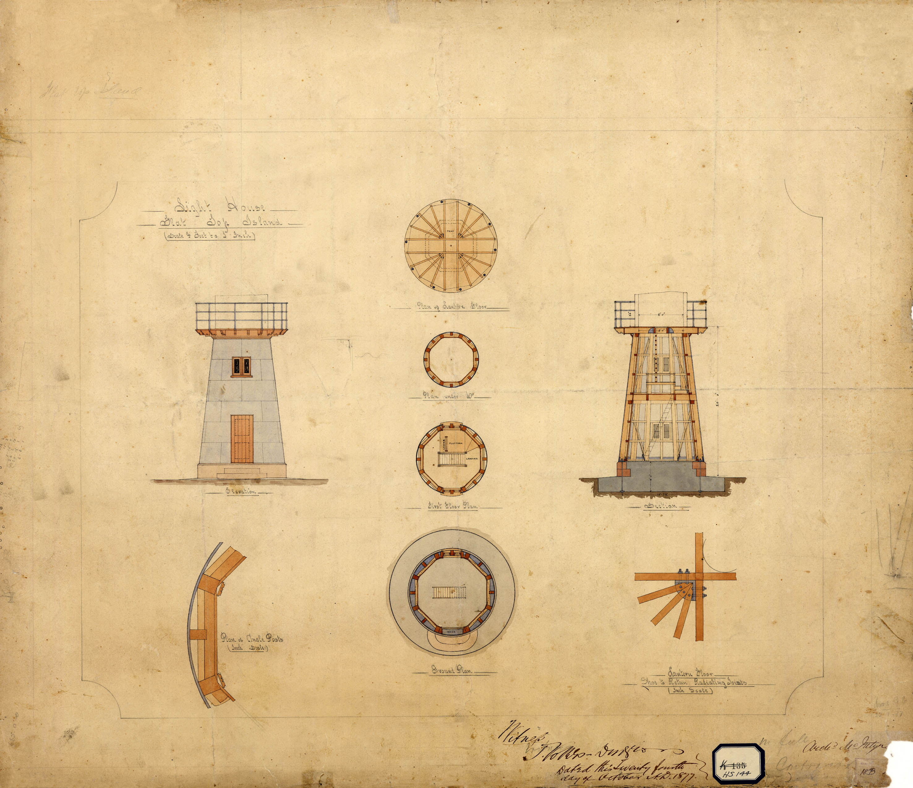 Flat Top Island Tower - Structure, 1877